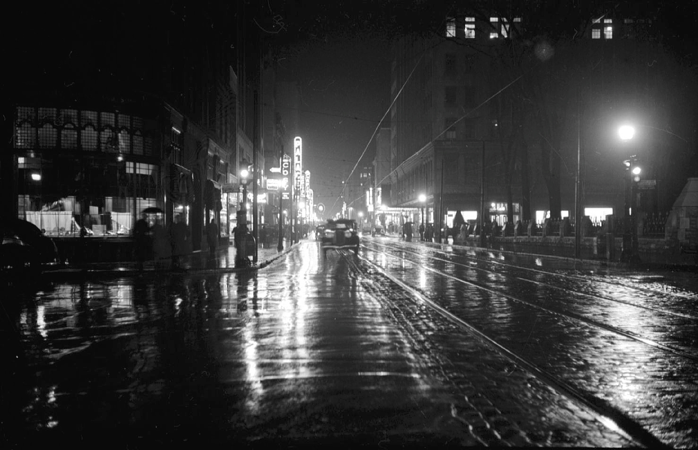 St. Catherine and Union Streets, Montreal, Canada. Eaton's Department Store.